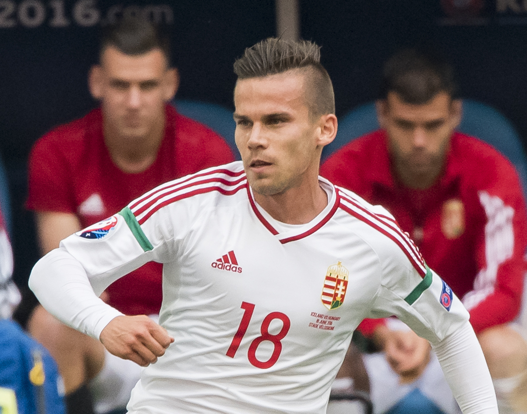 Zoltán Stieber playing for Hungary against Iceland at UEFA Euro 2016